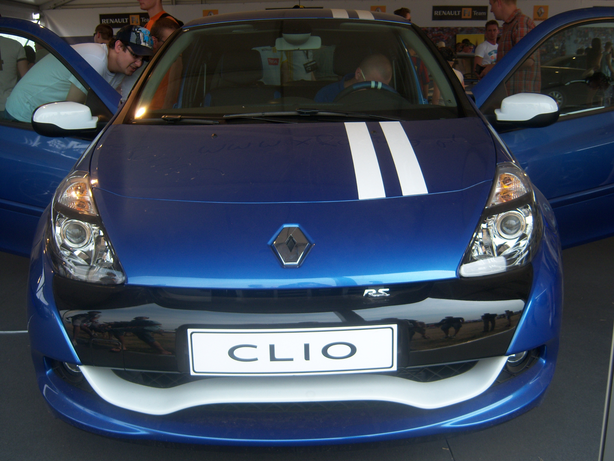 Renault Clio RS Gordini at Renault F1 Team Show in Poznań Track, Poland